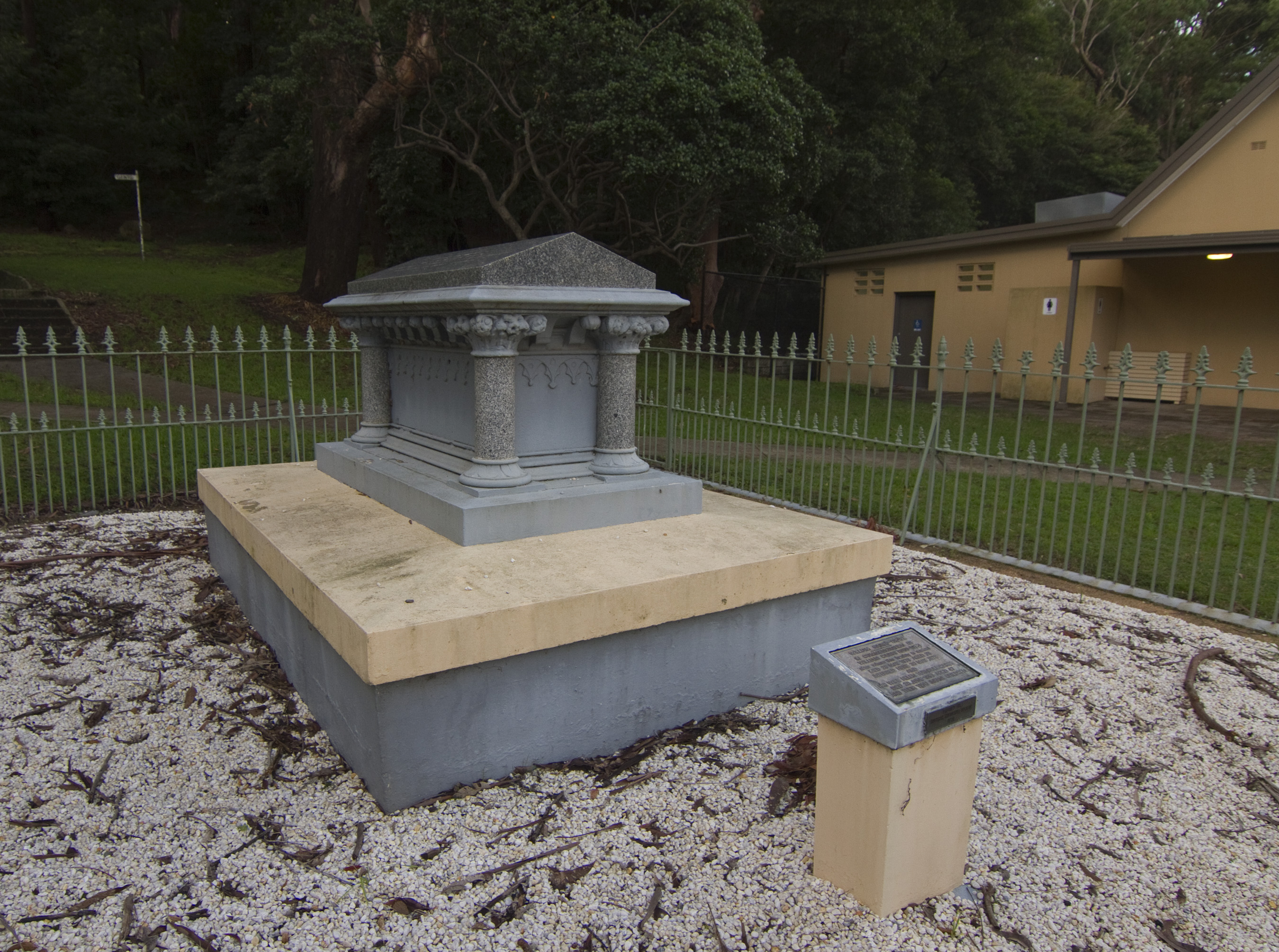 Carss Park NSW 2221, Australia